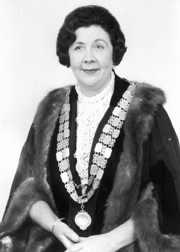 A portrait of Nell.E.Robinson